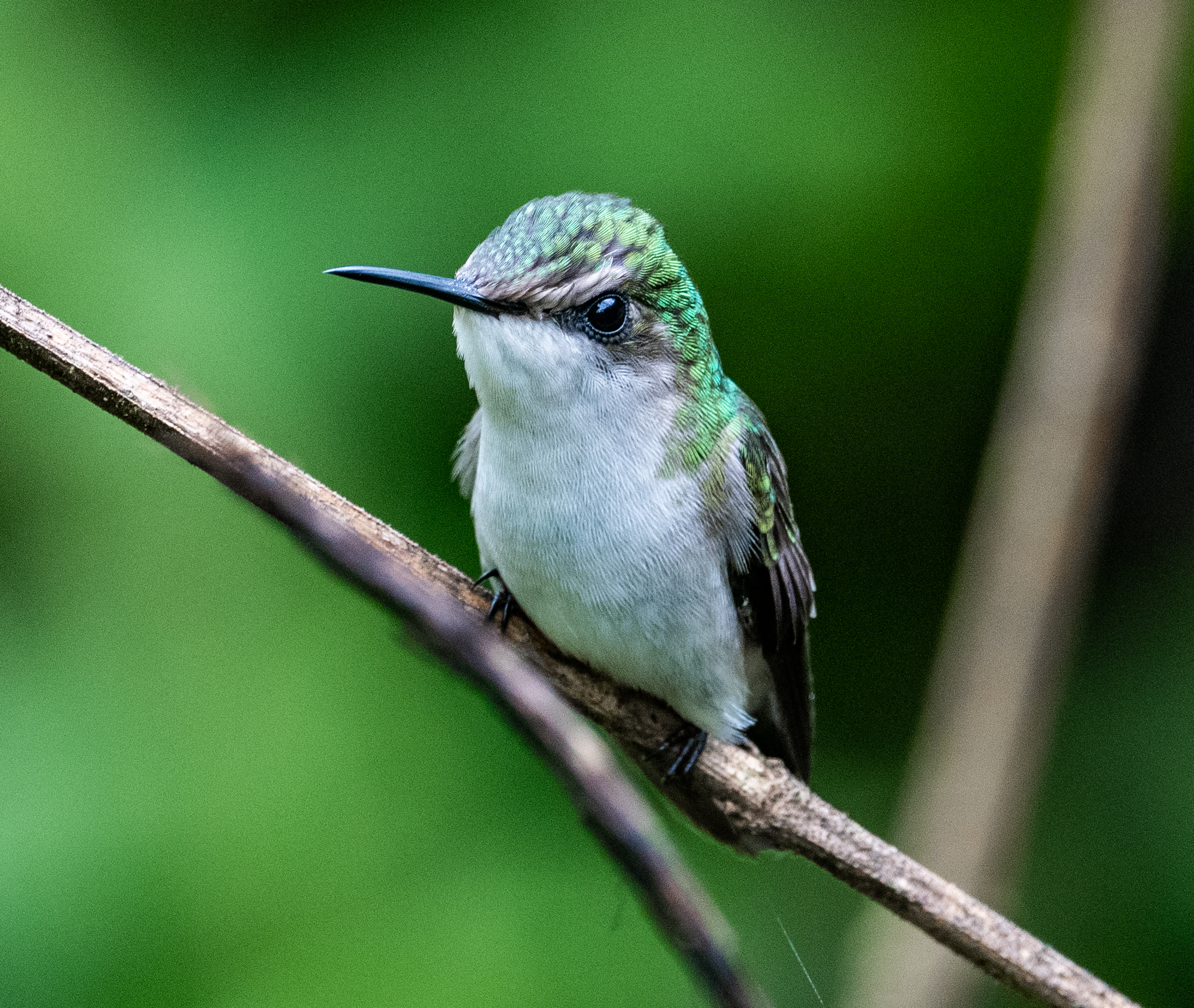 Female Snowcap Hummingbird photographed at El Tapir, Costa Rica by Carole Turek